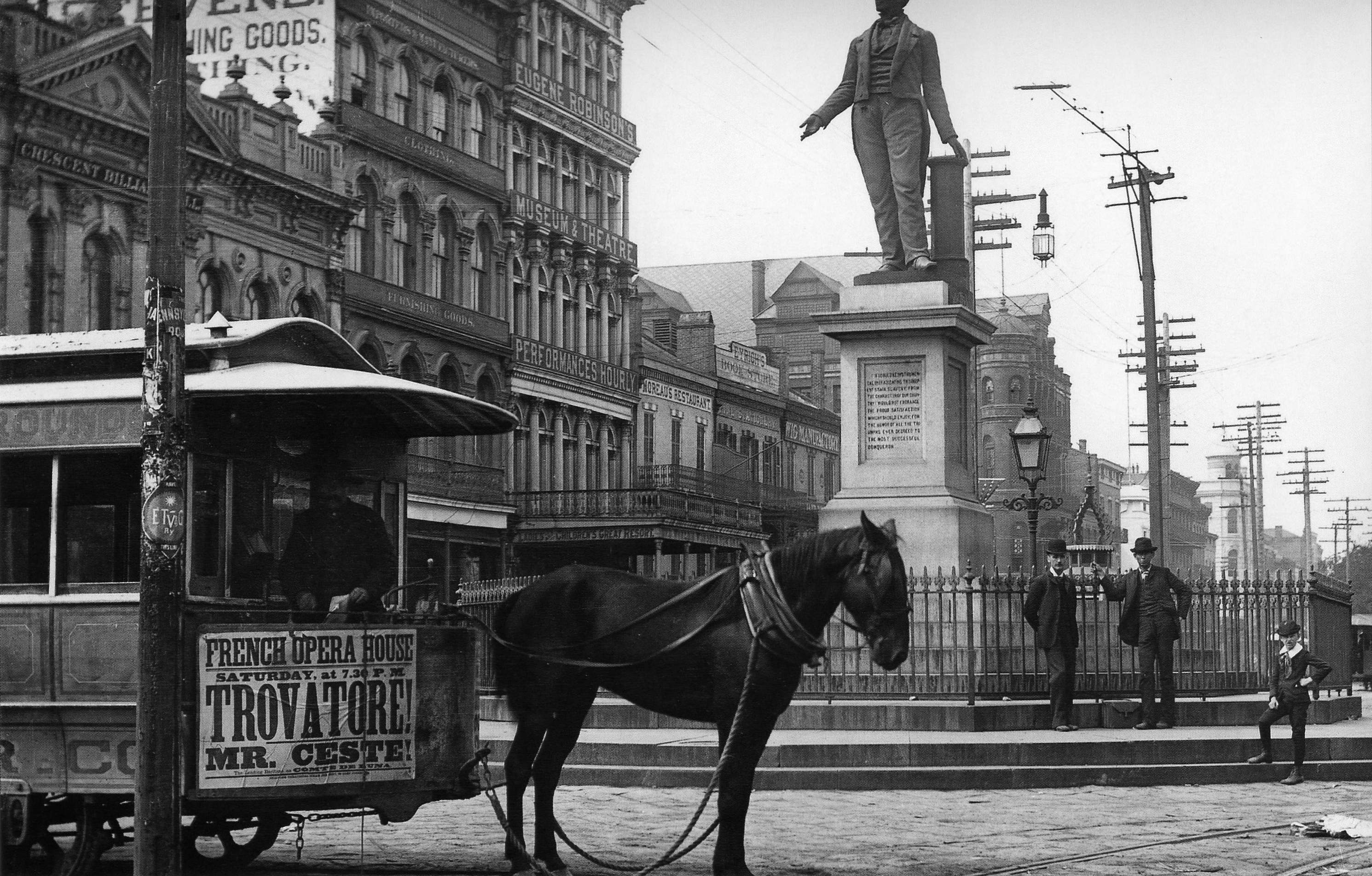 New Orleans, c. late 1890. Mule drawn tram at Henry Clay Monument, Canal Street & St. Charles. Note visible details: Paper advertisement for performance of Trovatore at the French Opera House. "Eugene Robinson's Museum & Theater, Performances Hourly" in middle of 700 block of Canal. Image discussed at ; see for more information. Per local papers, "Il Trovatore" ran at the French Opera House from 22 October 1890 through 28 January 1891, with apparently a single encore performance on Sunday 1 March 1891.